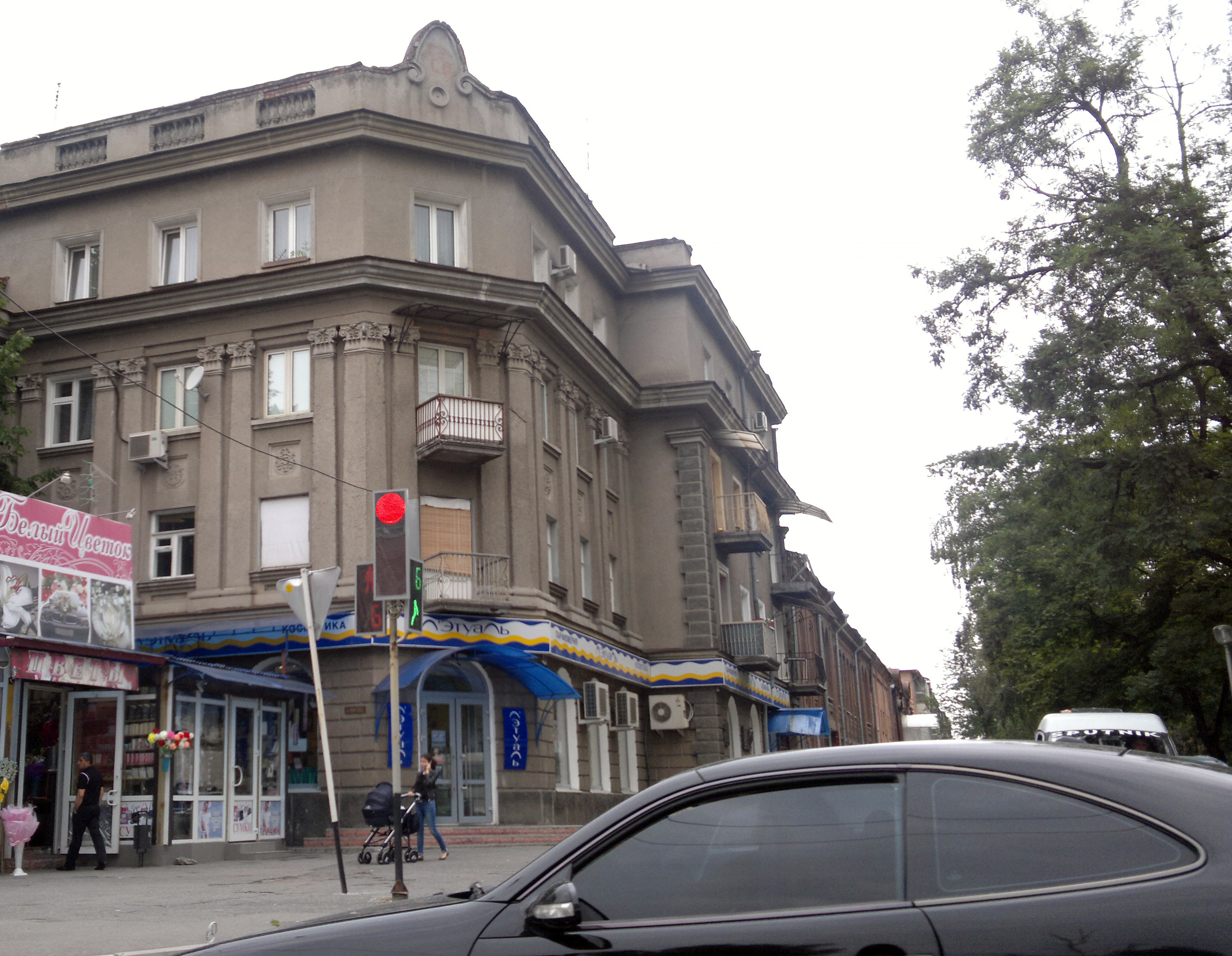 The corner of streets of Kirov and Tamaeva in Vladikavkaz